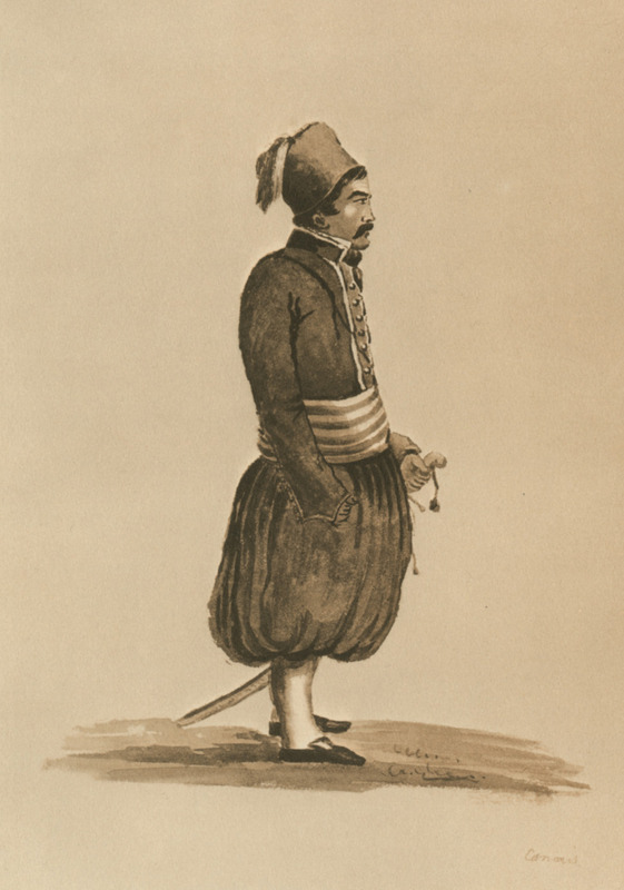 Canaris - Peytier Eugène - 1828-1836